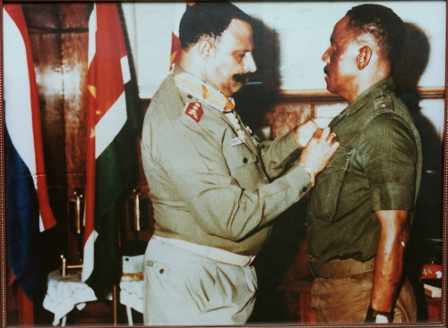 Surinam army officer Henk (Yngwe) Elstak (left) and Fred Ormskerk, probably second half of the 1970s.